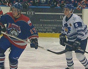 Released images of 1998 game between the Durham Huskies and Markham Waxers.